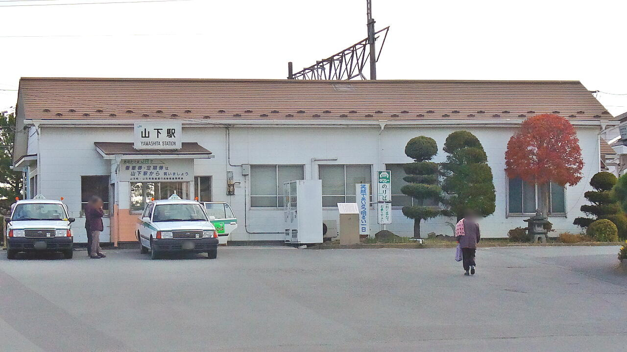 Yamashita Station on Joban Line